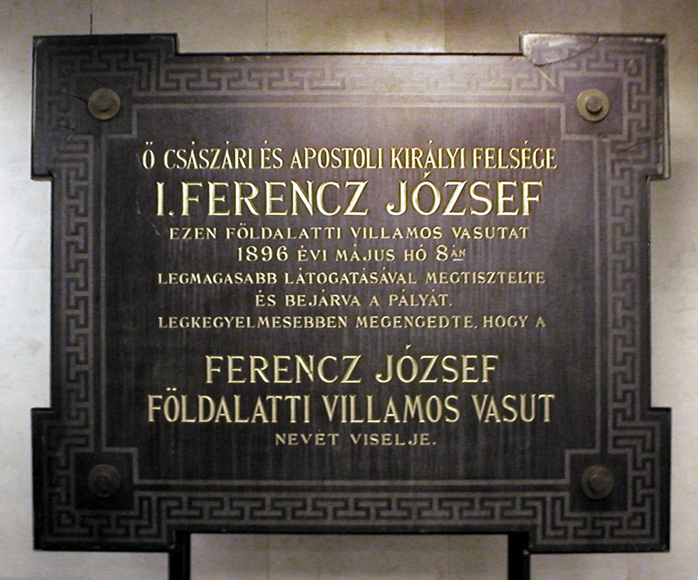 Opening plaque of the Budapest Földalatti in the metro museum at Deák tér Translation: His Imperial and Royal Apostolic Majesty, Franz Joseph I dignified this underground electric railway with his highest attendance on the 8th of May, 1896, and after visiting the track, he, with the most grace, allowed it to wear the name Franz Joseph Underground Electric Railway.